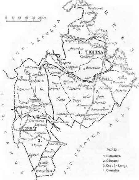 Map of Tighina interwar county, Kingdom of Romania (1938).